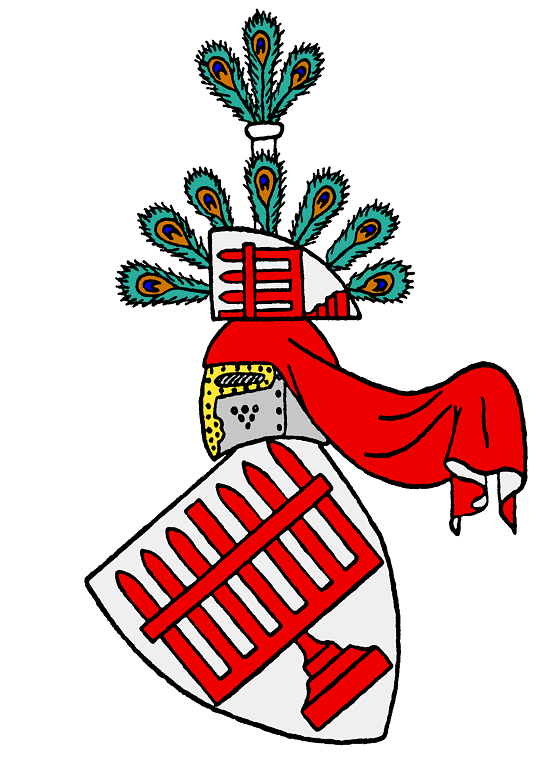 Coat of arms of the Levetzow family